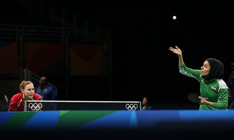 2016 Summer Olympics table tennis